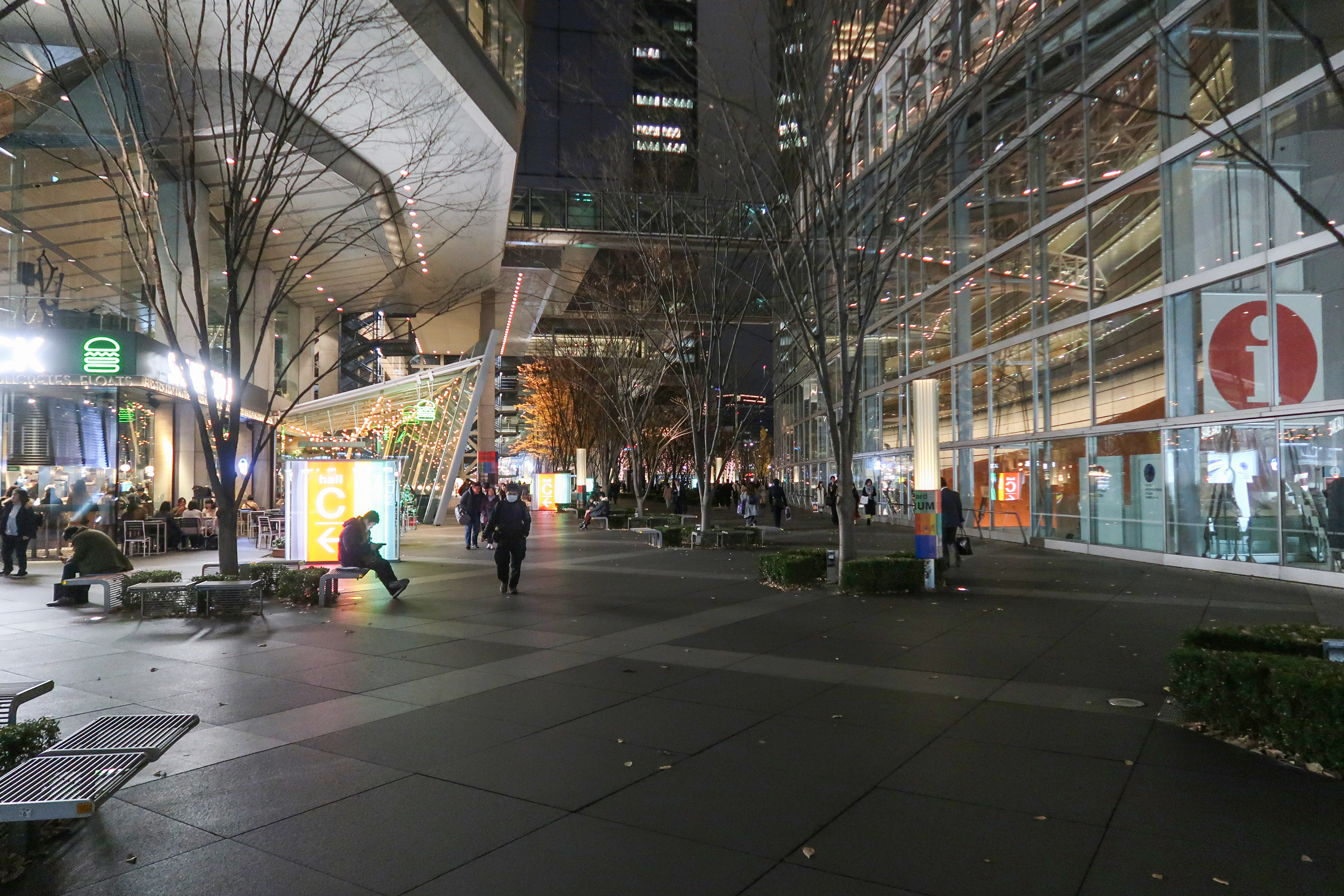 Tokyo International Forum Side Square